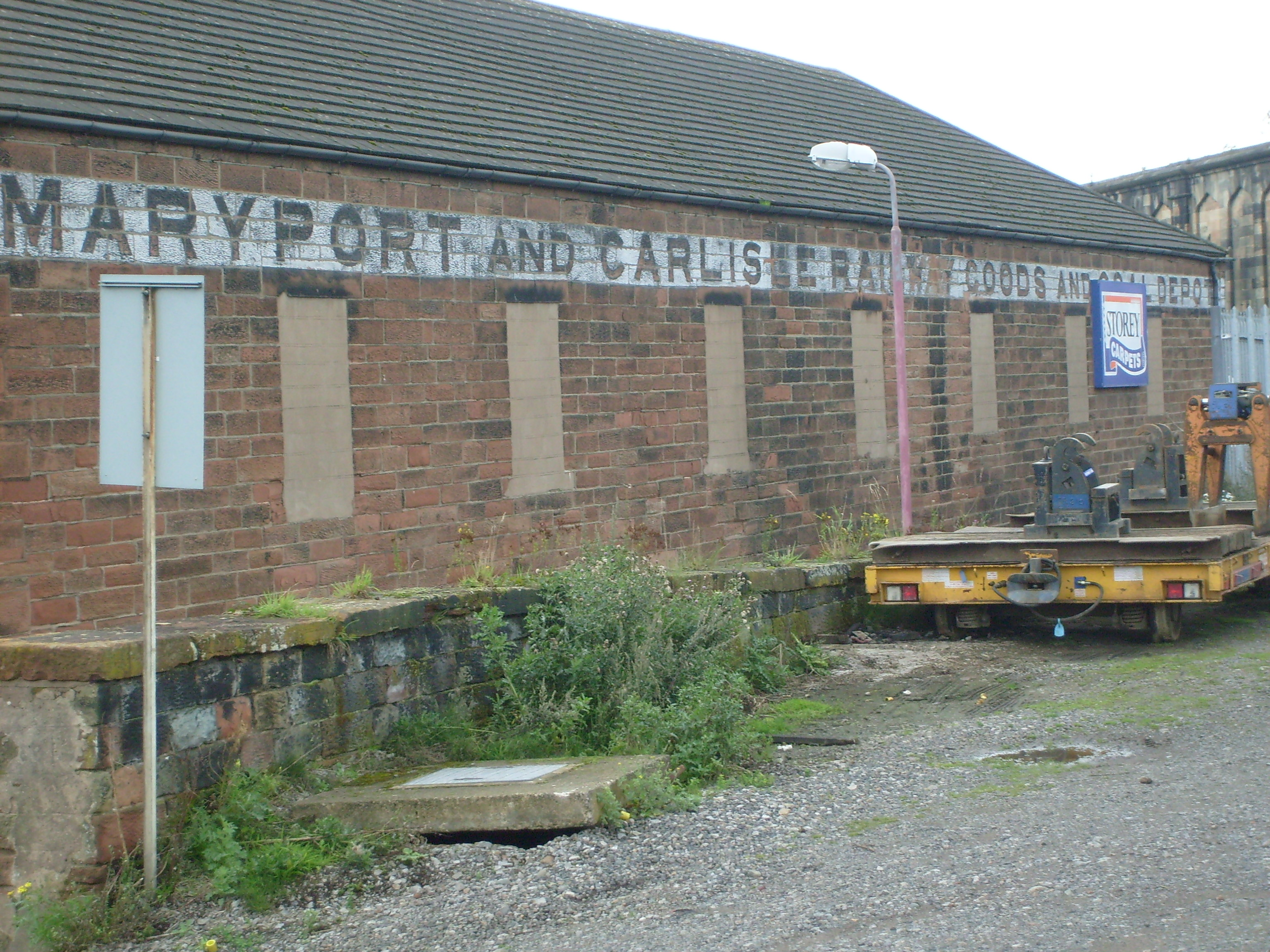 Maryport and Carlisle Railway Goods and Coal Depot, Carlisle, with the high boundary wall of Carlisle Citadel Railway Station just visible in the background.